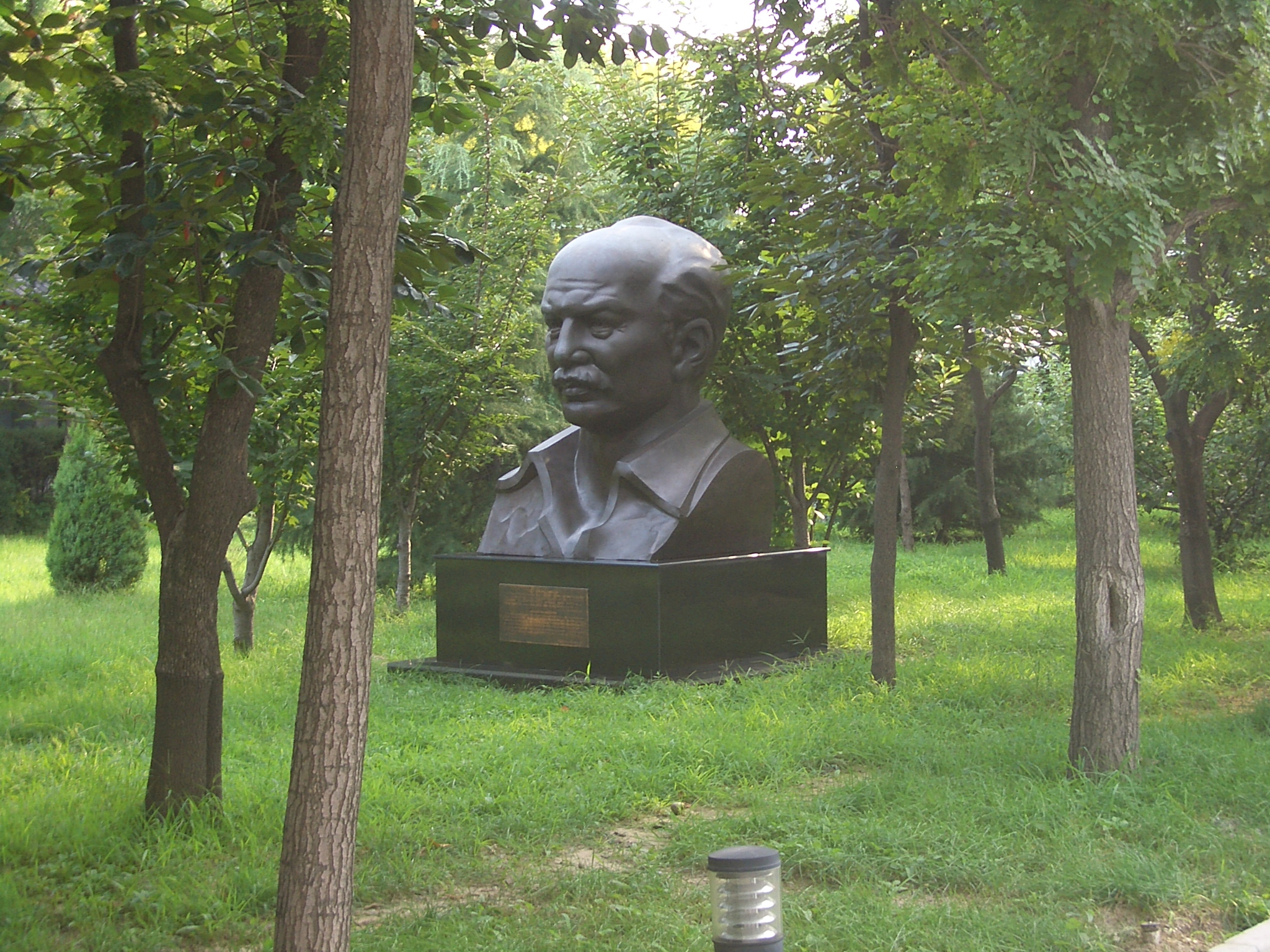 The head of the Canadian Communist doctor Norman Bethune: a monument in the park outside the Museum of the War Against Japan (inside Wanping Castle, near Marco Polo Bridge in Beijing)